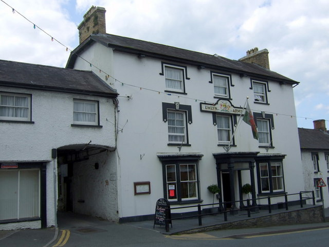 The Emlyn Arms Old hotel, once a coaching inn and posthouse where the mail was delivered. It stands up above the bridge in what was formerly the heart of the town.